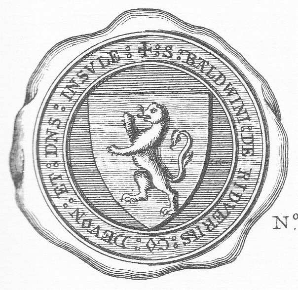 Seal of Baldwin de Redvers. Arms: a lion rampant. Legend: "S(IGILLUM) BALDWINI DE RIDVERIIS C(OMITIS) DEVON ET D(OMI)N(U)S INSULE" (seal of Baldwin de Redvers, Count of Devon and of The Isle). Source: Worsley, Sir Richard, History of the Isle of Wight, London, 1781. Plate II (p.52/53), no.8.